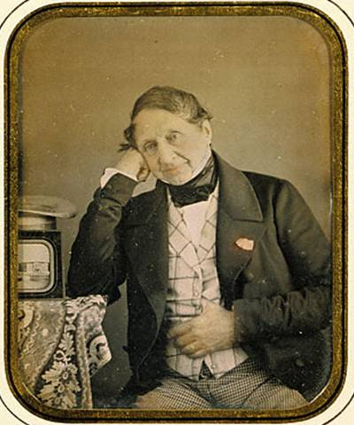 Jean-Gabriel Eynard - Self-Portrait with a Daguerreotype of Geneva. Hand-colored daguerreotype. Image [1/4 plate]: 3 13/16 x 2 7/8 in. 84.XT.255.42